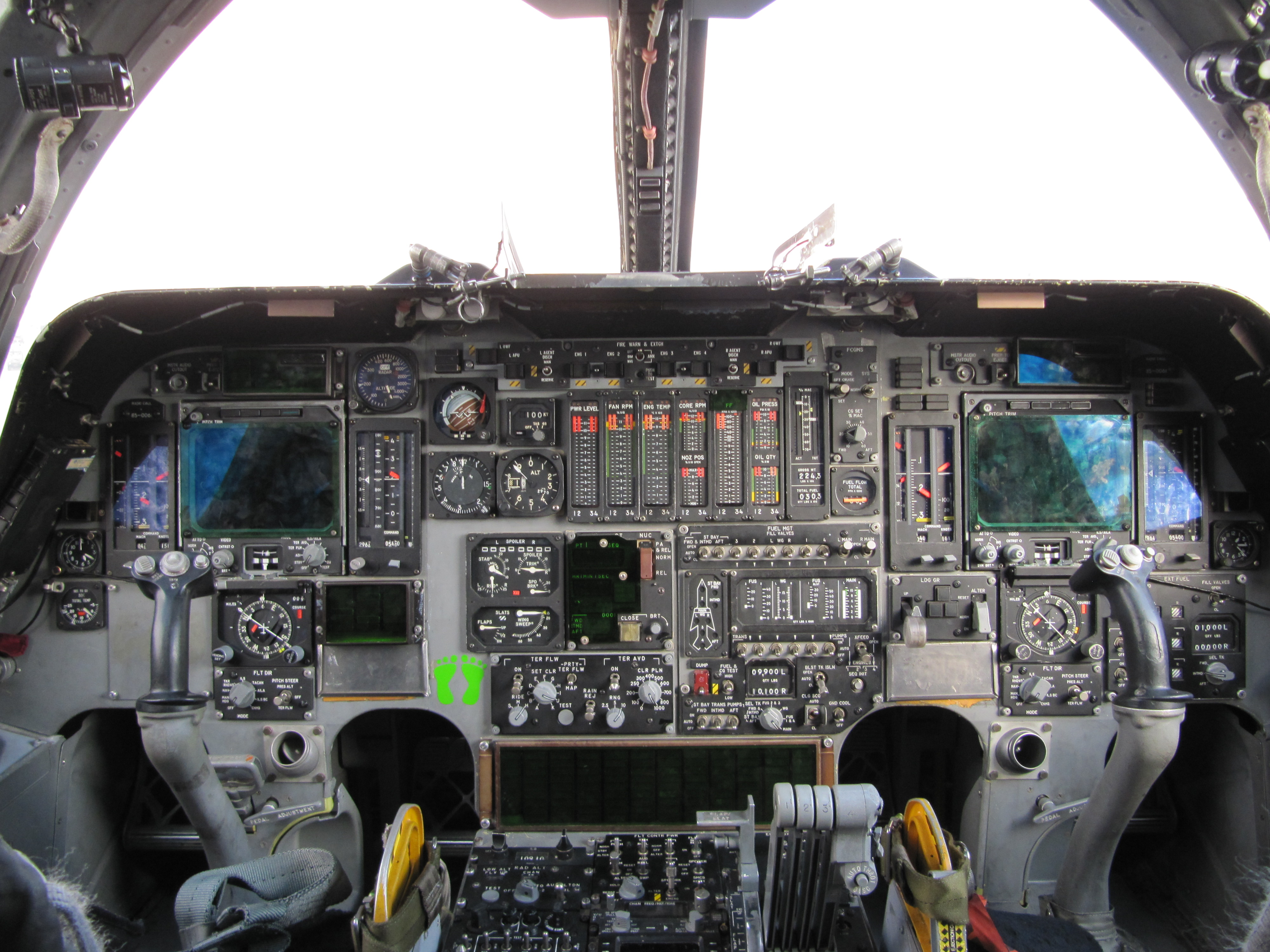 Cockpit of the B-1 Lancer taken at the Nellis AFB Aviation Nation 2009.